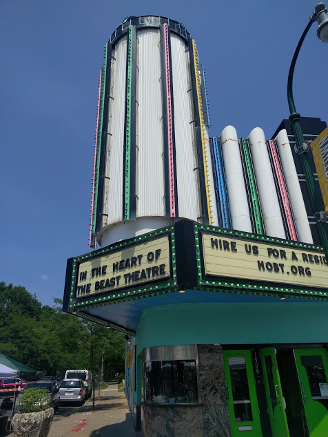 Photo of the entrance of In the Heart of the Beast Puppet and Mask Theatre, including marquee and tower.